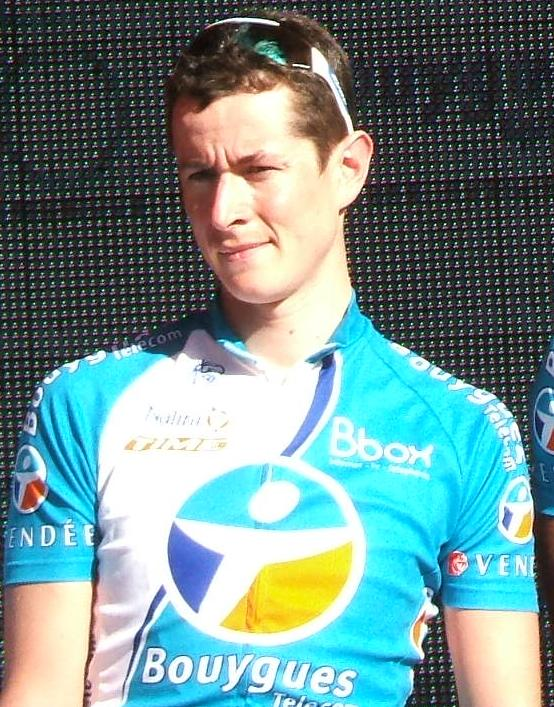 Named cyclist at the en:2009 Tour Down Under team presentation